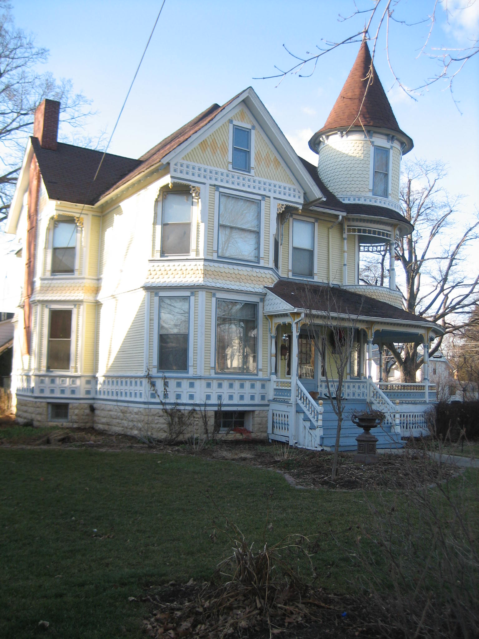 405 S. Main St., Henry Garbutt House, Sycamore, Illinois. Sycamore Historic District, National Register of Historic Places.